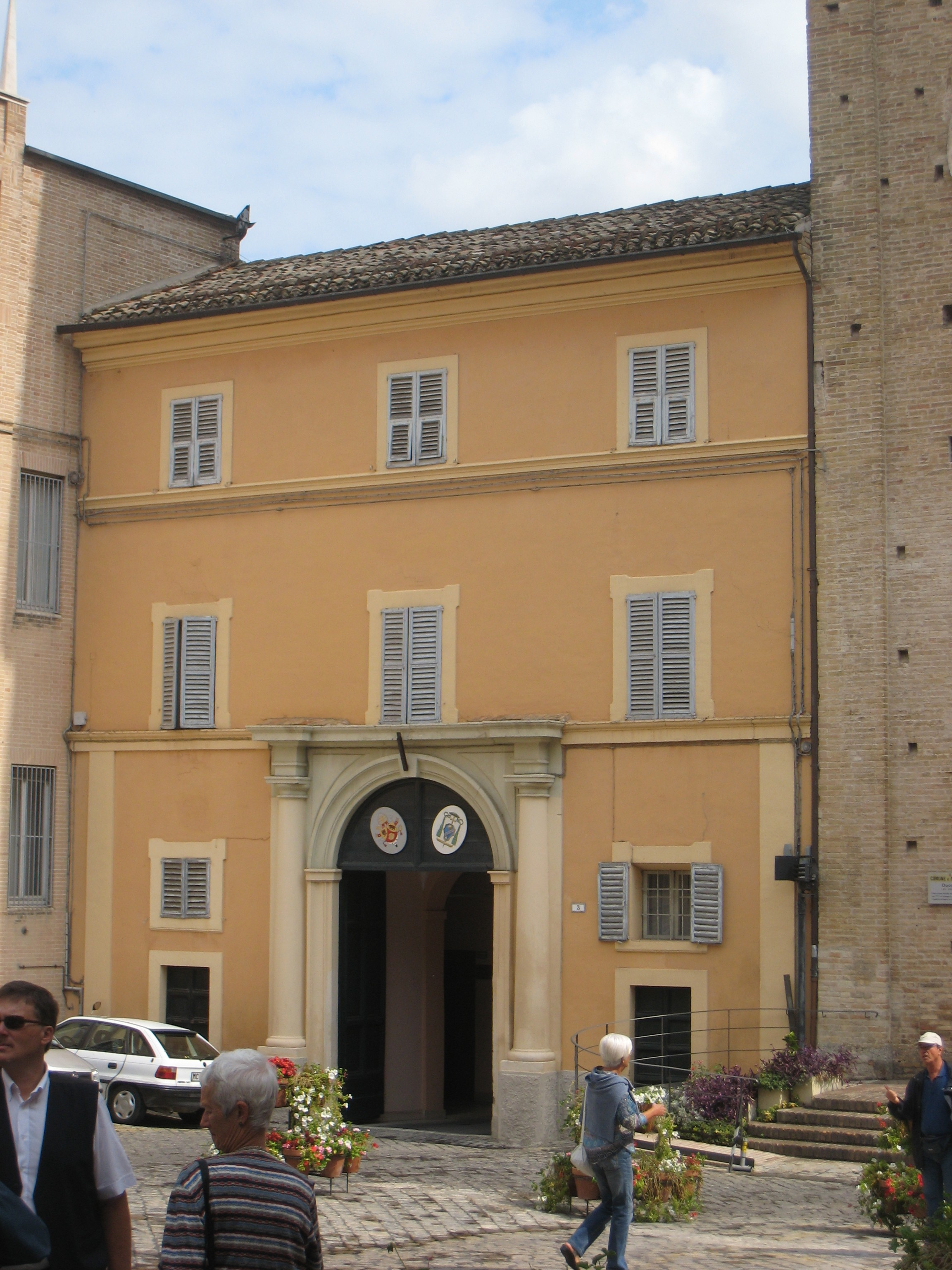 Bishop's Palace in Macerata